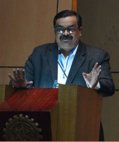 This is the photo of Director P.P. Chakraborty of iit kharagpur take by me at ICTACEM International Conference, December 2014